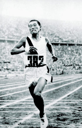 Sohn Kee-chung coming in 1st at the Berlin Olympics in 1936.